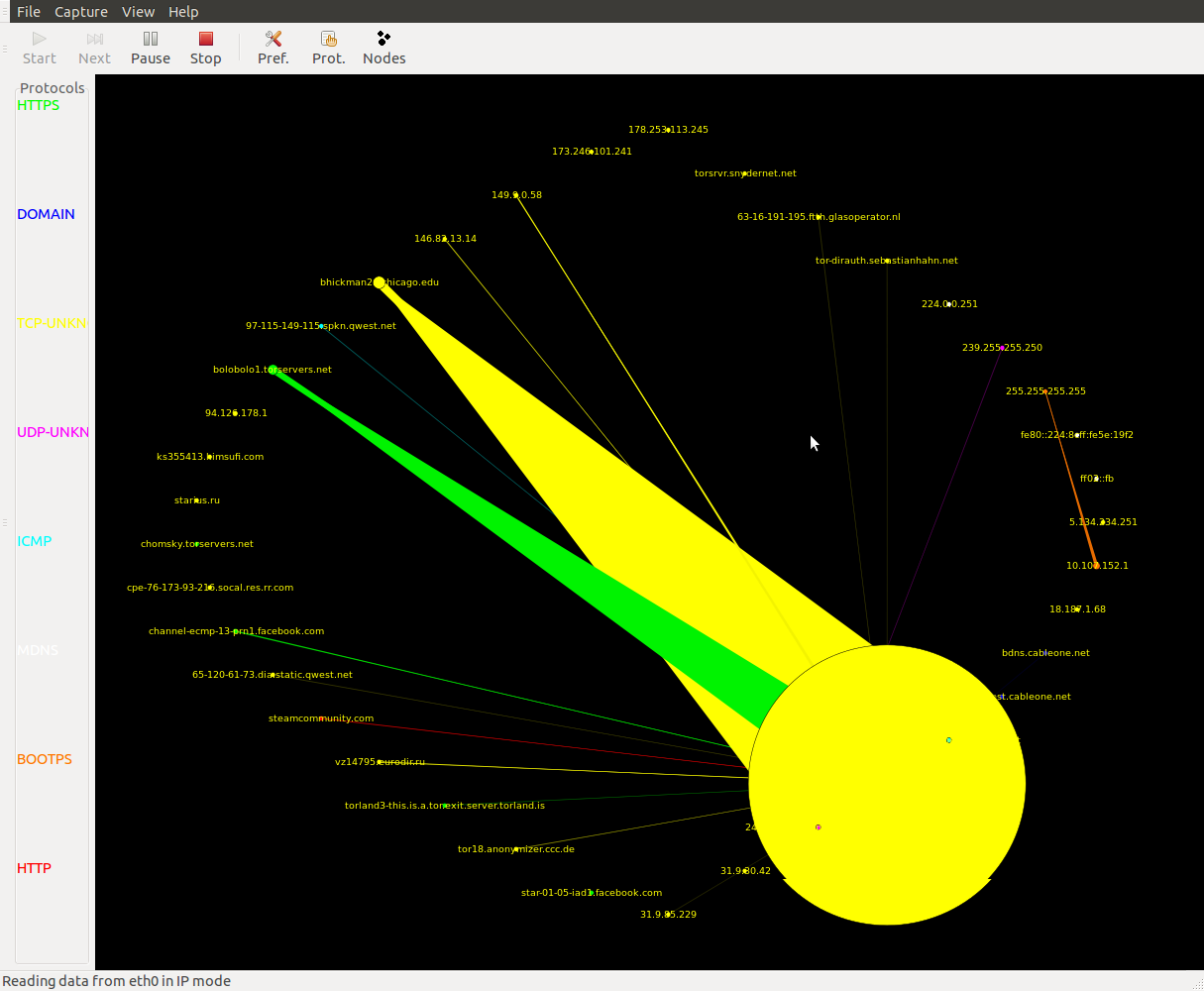 A depiction of the traffic between some Tor replay nodes from the open source packet sniffing program EtherApe.